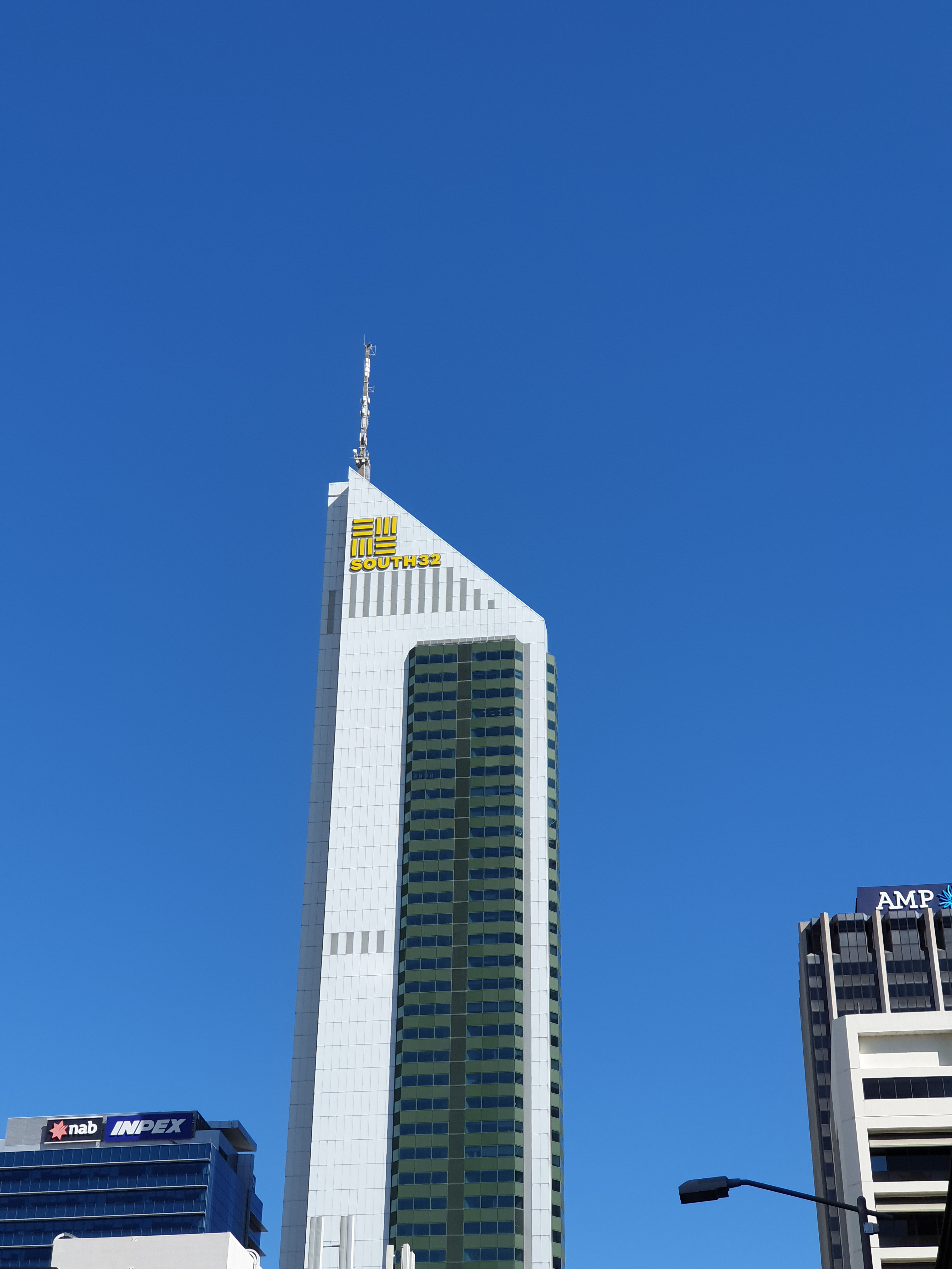 taken from William street